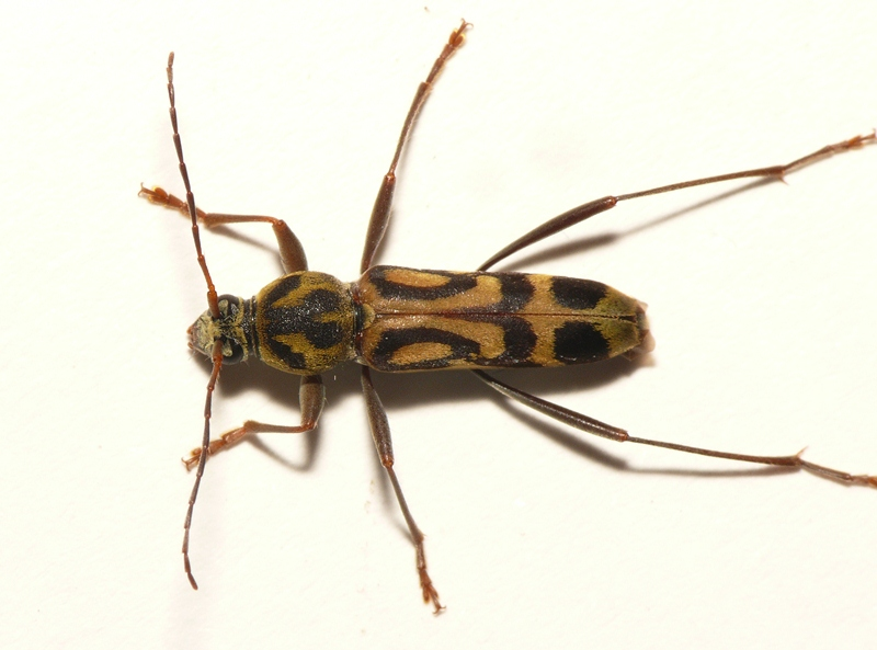 Chlorophorus annularis, location: The Netherlands - Wageningen - Droevendaalsesteeg